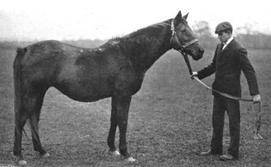 Epsom Oaks winner Wheel of Fortune, circa 1903.